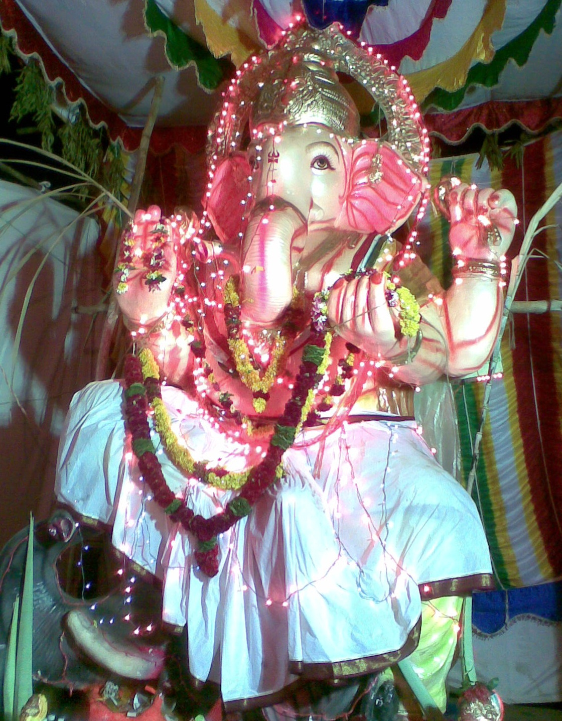 Vinayakachavithi Matti Vinayaka with lighting at Vinjamur, Nellore (dt), A.P, India.